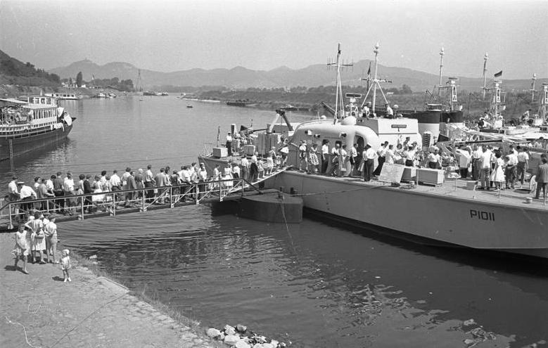 Visitors board British Brave class fast patrol boat Brave Borderer (P1011) at Oberwinter, Germany.